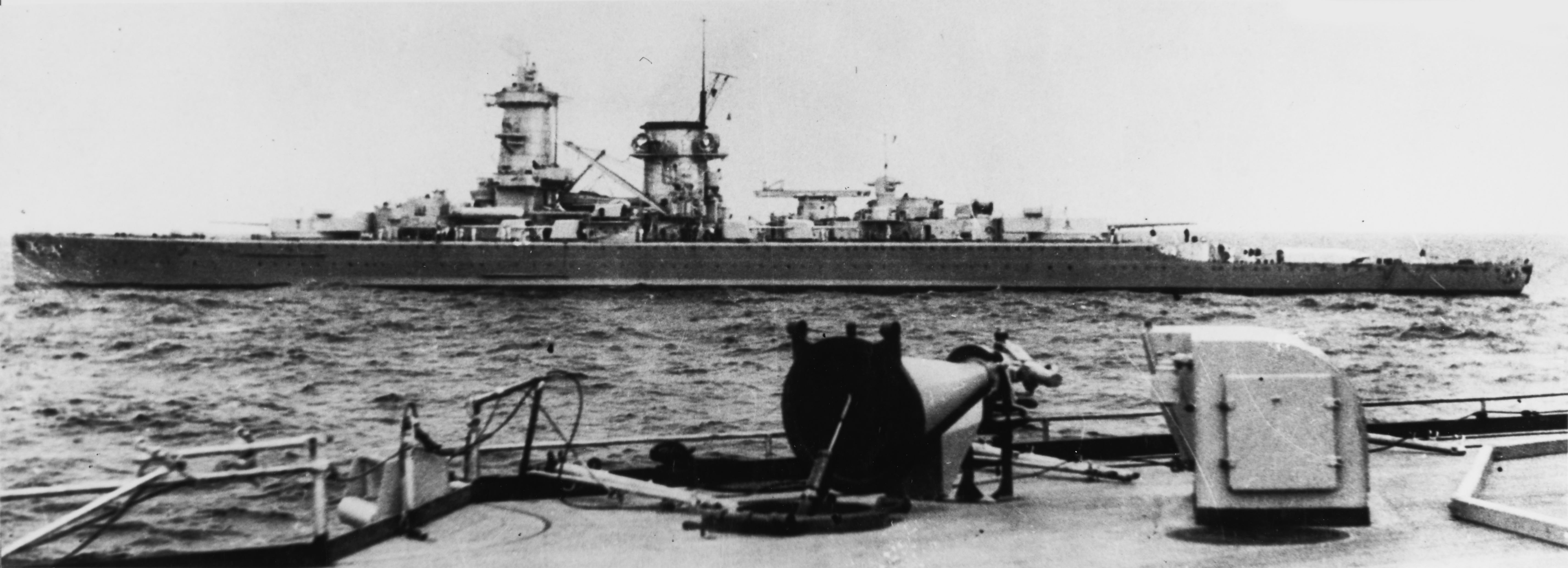 Admiral Scheer photographed from another ship in 1935-1938.